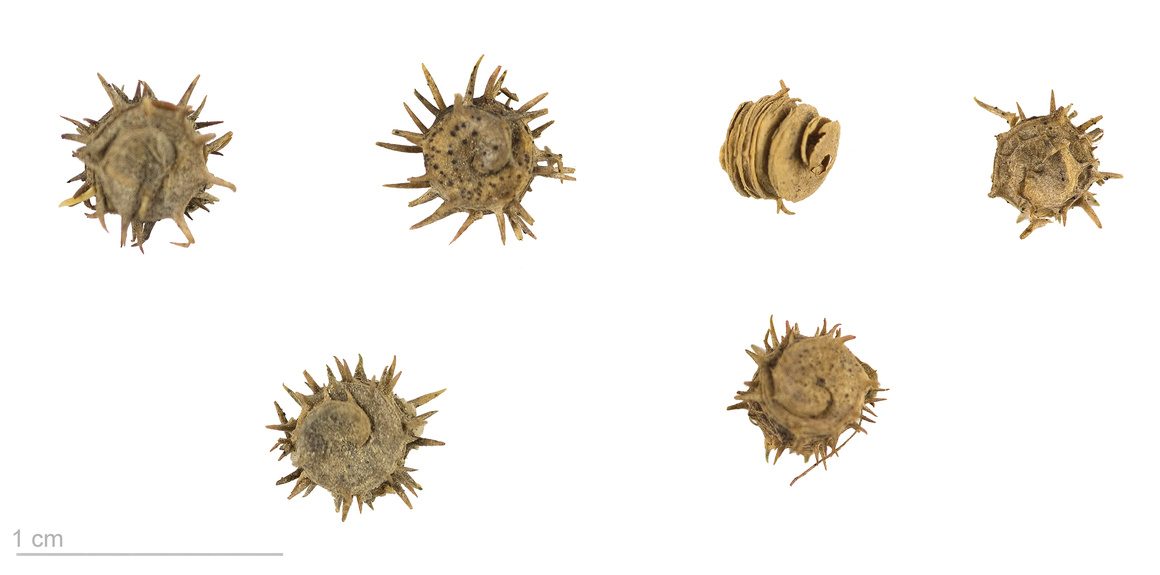 coastal medick, fruits and seeds